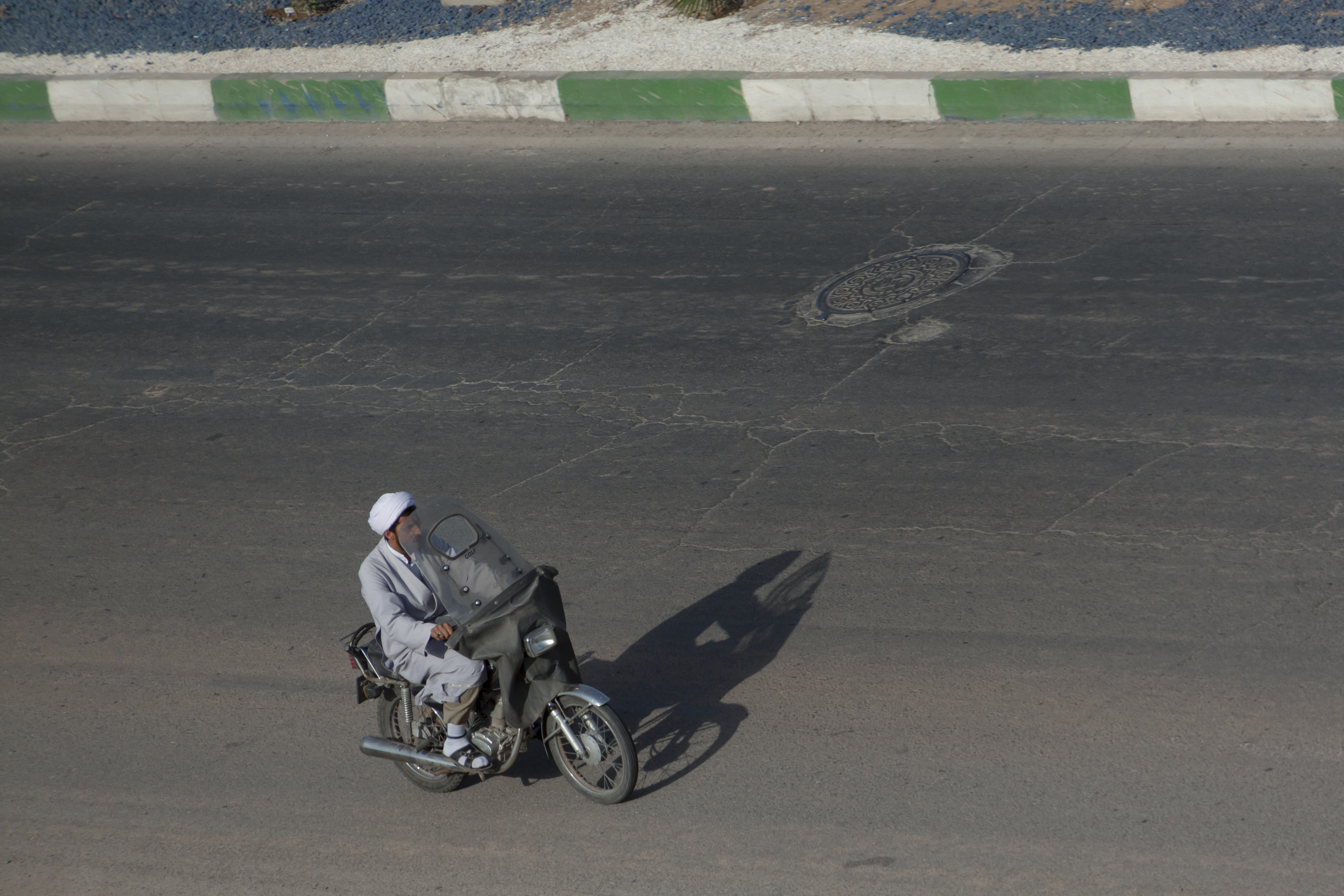 Qom is the seventh largest metropolis and also the seventh largest city in Iran.